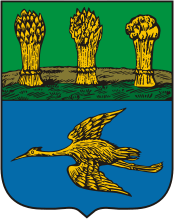 Belinsky (Chembar, Penza oblast), coat of arms (1781)